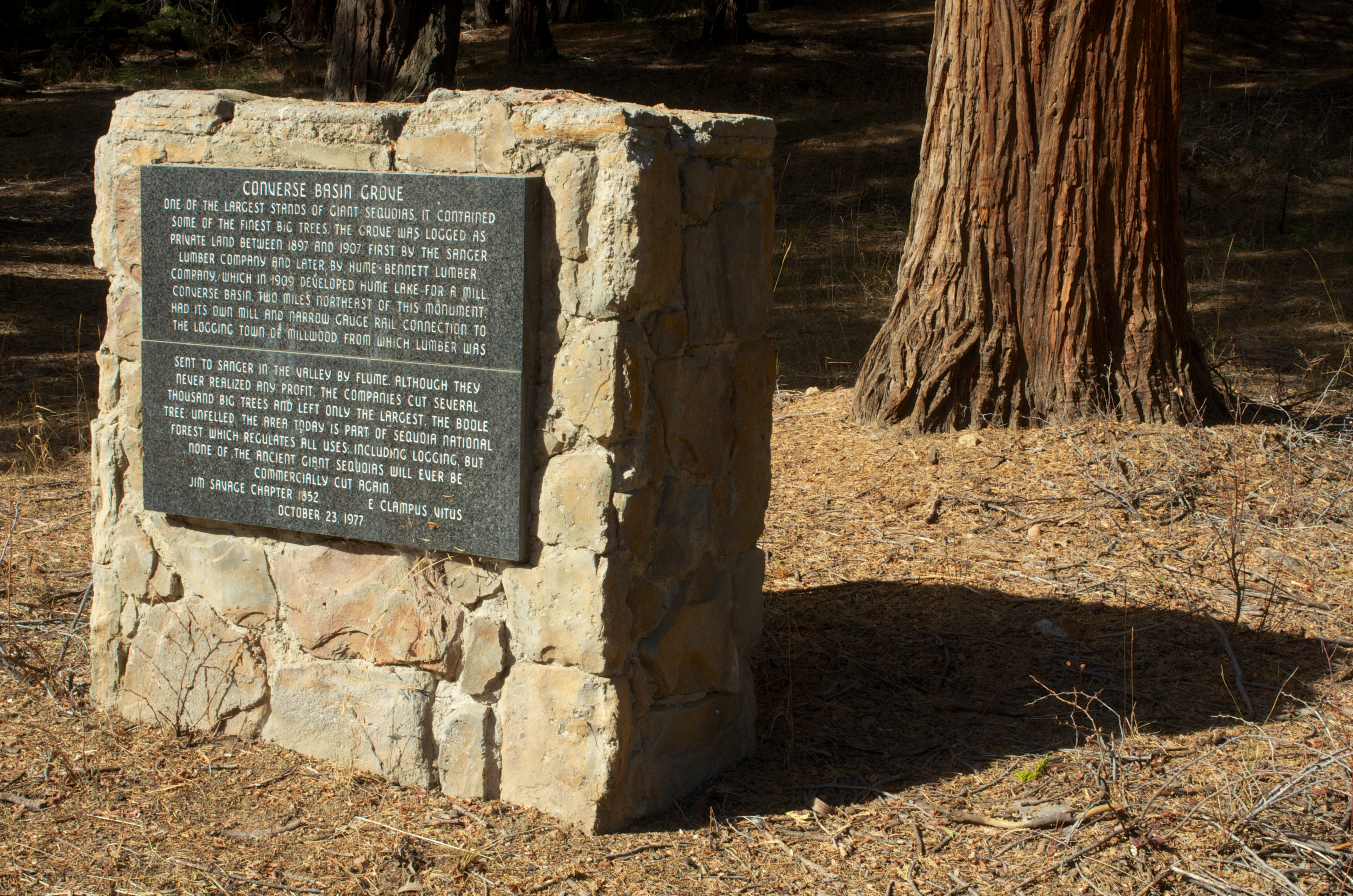 CONVERSE BASIN GROVE One of the largest stands of Giant Sequoias, it contained some of the finest big trees. The grove was logged as private land between 1897 and 1907, first by the Sanger Lumber Company and later by the Hume-bennett Lumber Company, which in 1909 developed Hume Lake for a mill. Converse Basin, two miles northeast of this monument, had had its own mill and narrow gauge rail connection to the logging town of Millwood, from which lumber was sent to Sanger in the Valley by flume. Although they never realized any profit, the companies cut several several thousand big trees and left only the largest, the Boole Tree, unfelled. The area today is part of Sequoia National Forest, which regulates all uses, including logging, but none of the ancient giant sequoias will ever be commercially cut again. Jim Savage, Chapter 1852 E Clampus Vitus October 23, 1977